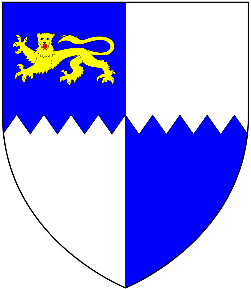 Arms of Croft, Baron Croft of Croft Castle, Herefordshire: Quarterly per fess indented azure and argent, in the 1st quarter a lion passant guardant or (Kidd, Charles, Debrett's peerage & Baronetage 2015 Edition, London, 2015, p.P306)